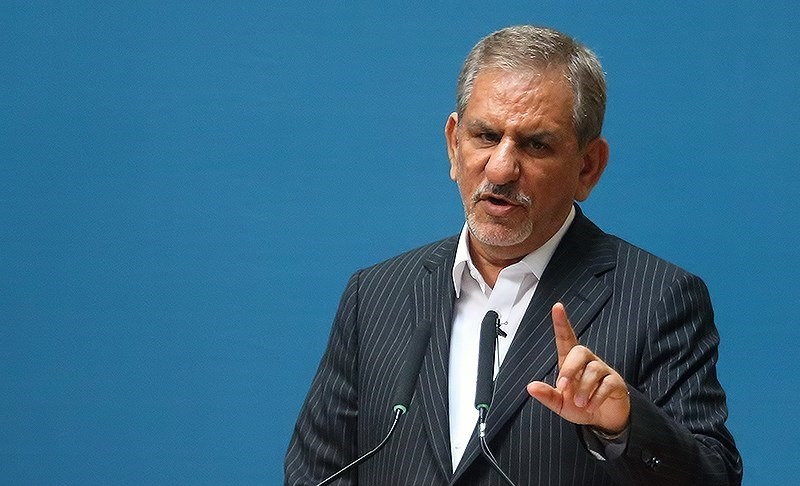 Eshaq Jahangiri, First Vice President of Iran during 6th development plan conference